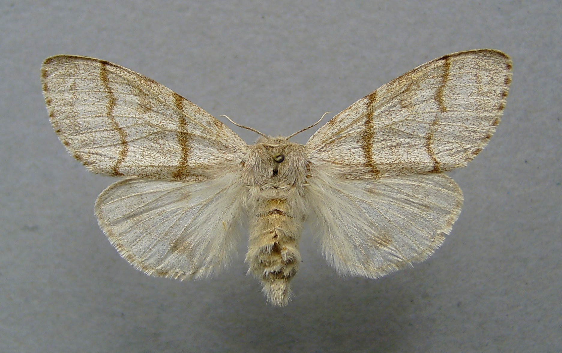 Calliteara pudibunda